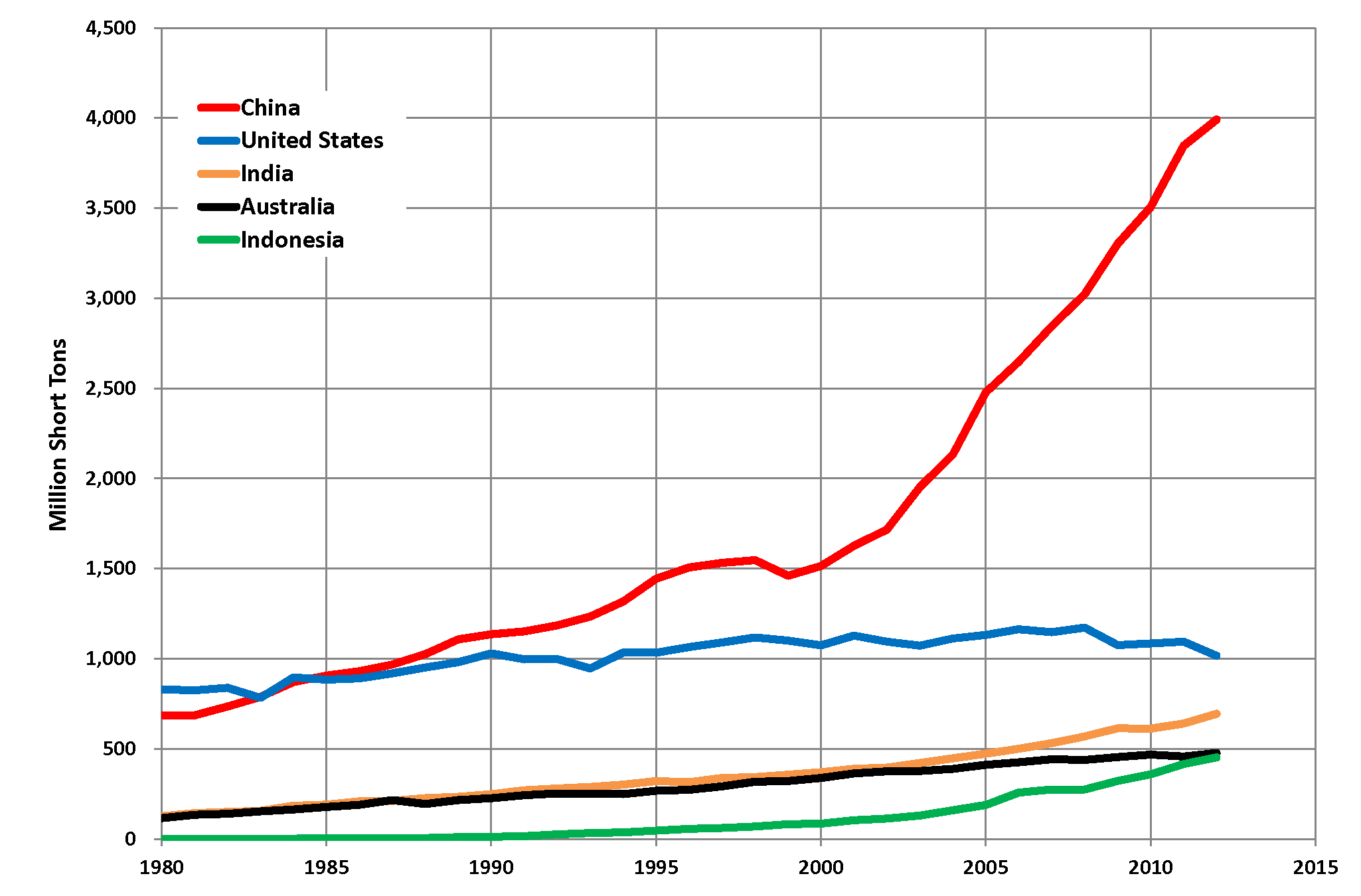 Coal production trends 1980-2012 in the top five coal-producing countries (US EIA)